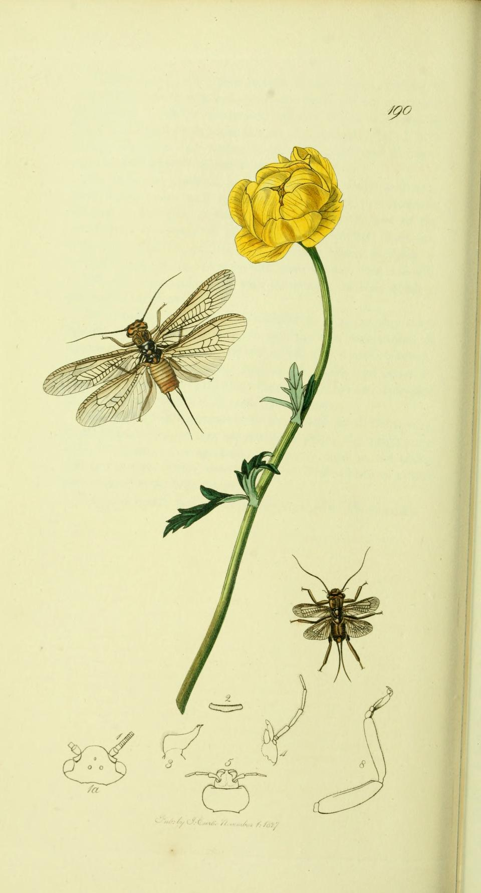 An illustration from British Entomology by John Curtis.Plecoptera: Perla cephalotes Synonym Dinocras cephalotes (Perlidae: Broad-headed Stone-fly)